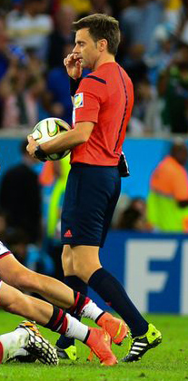 Germany and Argentina face off in the final of the World Cup